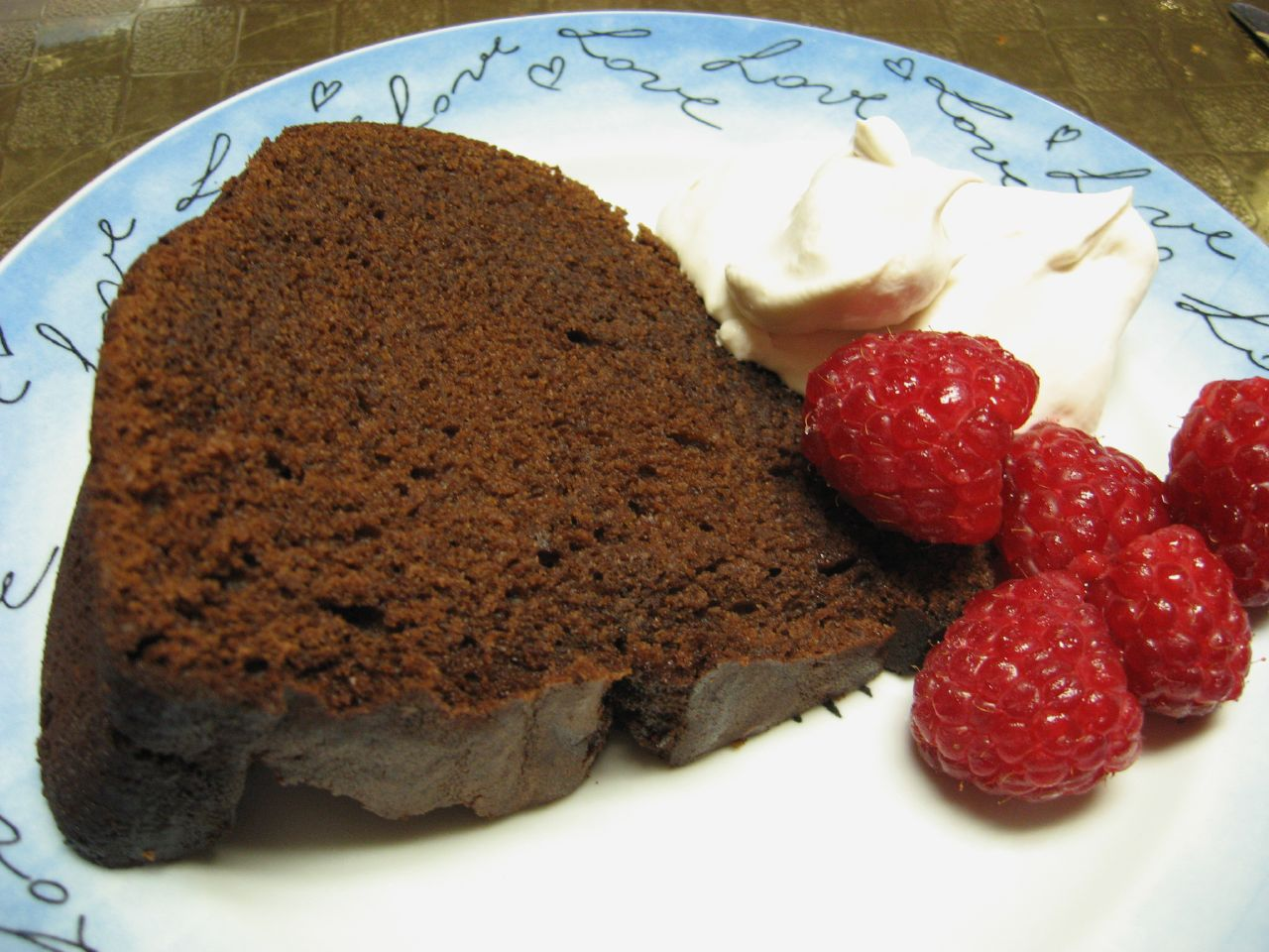 Chocolate Sour Cream Bundt Cake with Tangy Whipped Cream (cream + brown sugar + sour cream) and Lightly Sweetened Raspberries)